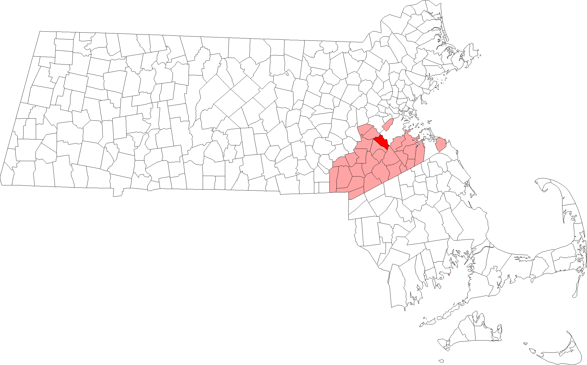 Location of Dedham in Norfolk County, Massachusetts